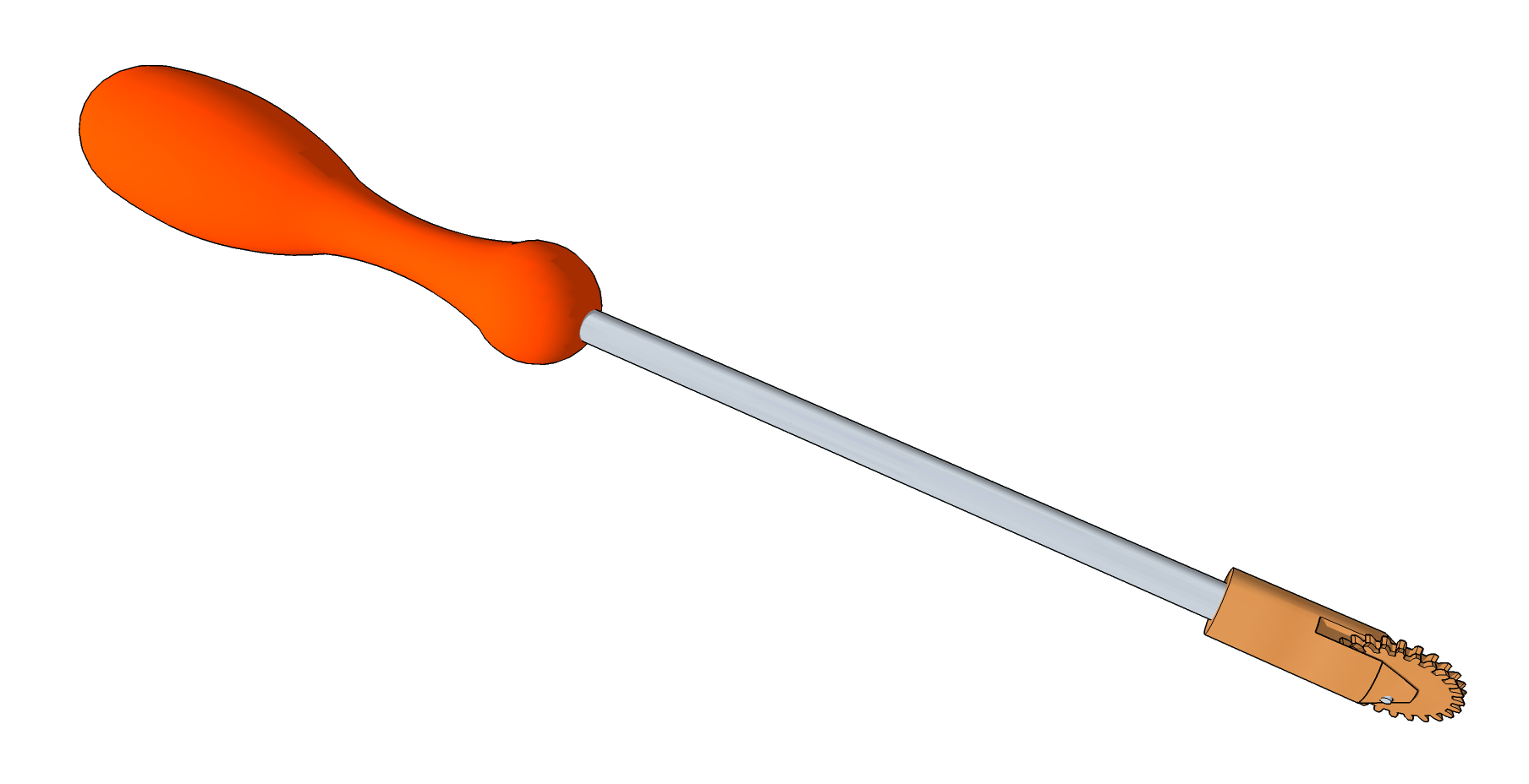 A spur embedder.